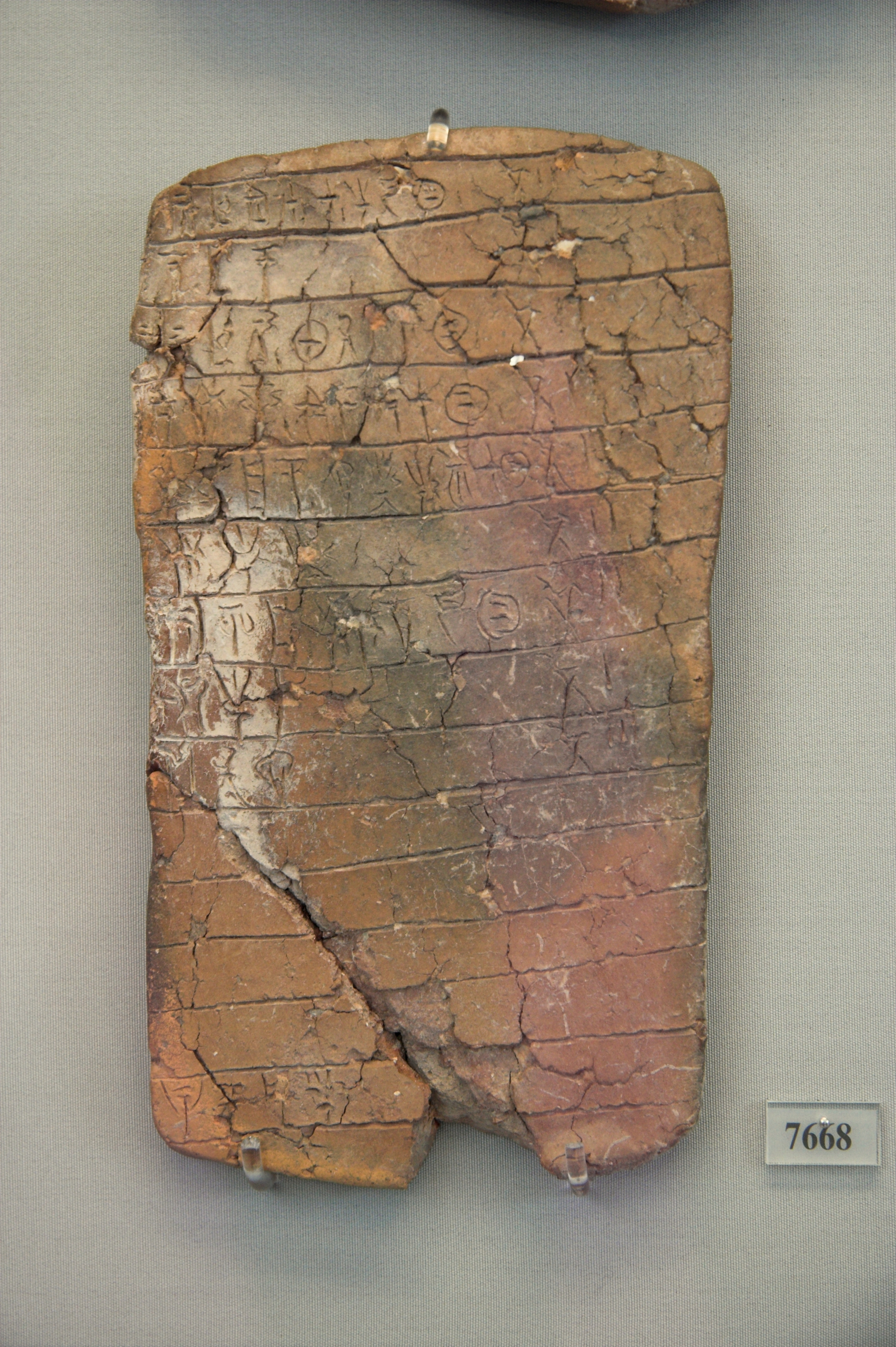 Mycenaean tablet, inscriptio in linear B. Late Bronze Age, circa 1250 BC. National Archaeological Museum of Athens N 7668.